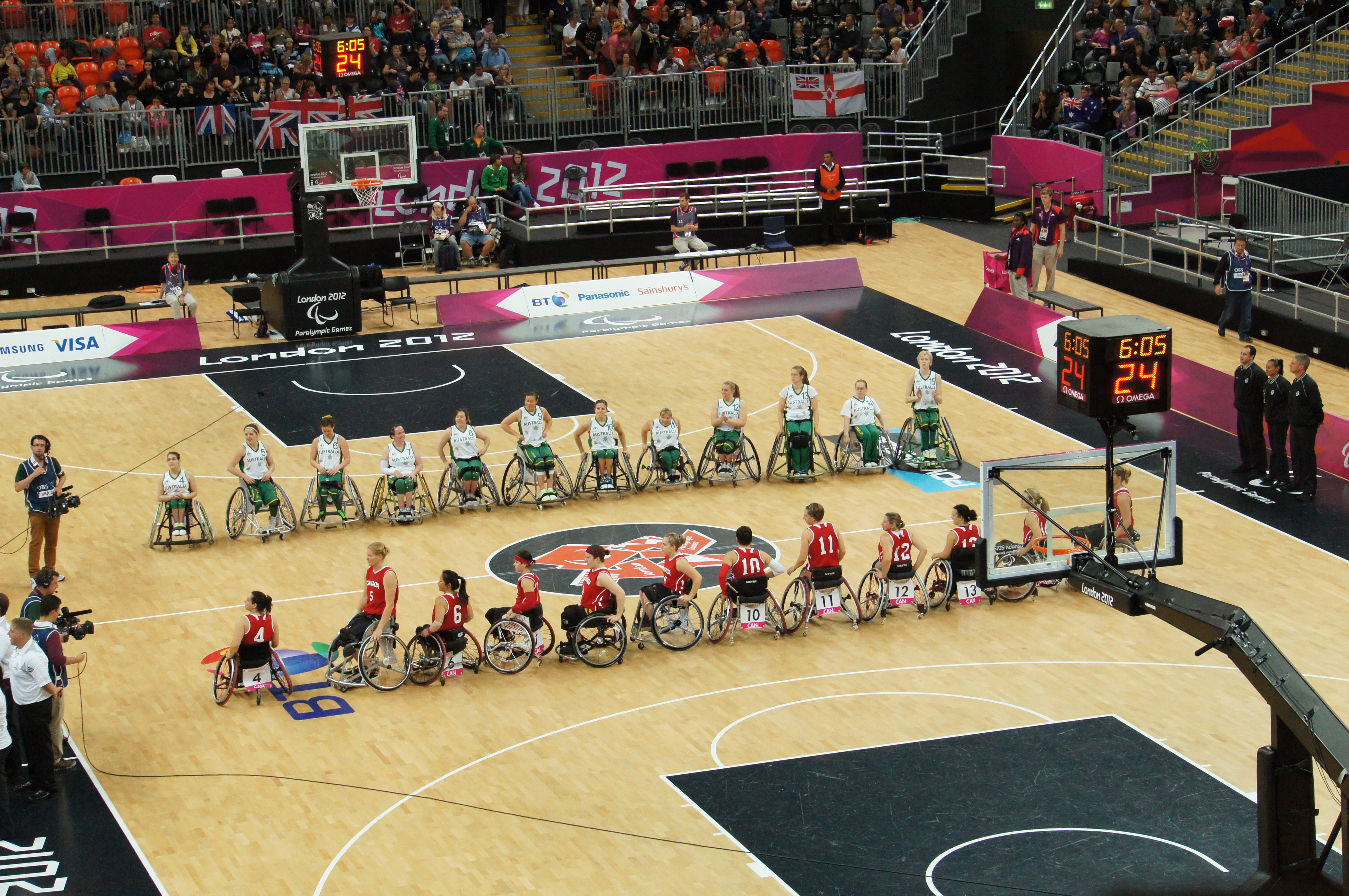 Australia - Canada, women's wheelchair basketball at Paralympics 2012, September 1. Australia, left to right: Sarah Vinci, Cobi Crispin, Bridie Kean, Amanda Carter, Tina McKenzie, Leanne del Toso, Clare Nott, Kylie Gauci, Shelley Chaplin, Sarah Stewart, Katie Hill, Amber Merritt. Canada, left to right: Elaine Allard, Janet Mclachlan, Kendra Ohama, Cindy Ouellet, Tamara Steeves, Maude Jacques, Katie Harnock, Tracey Ferguson, Jamey Jewells, Jessica Vliegenthart, Tara Feser